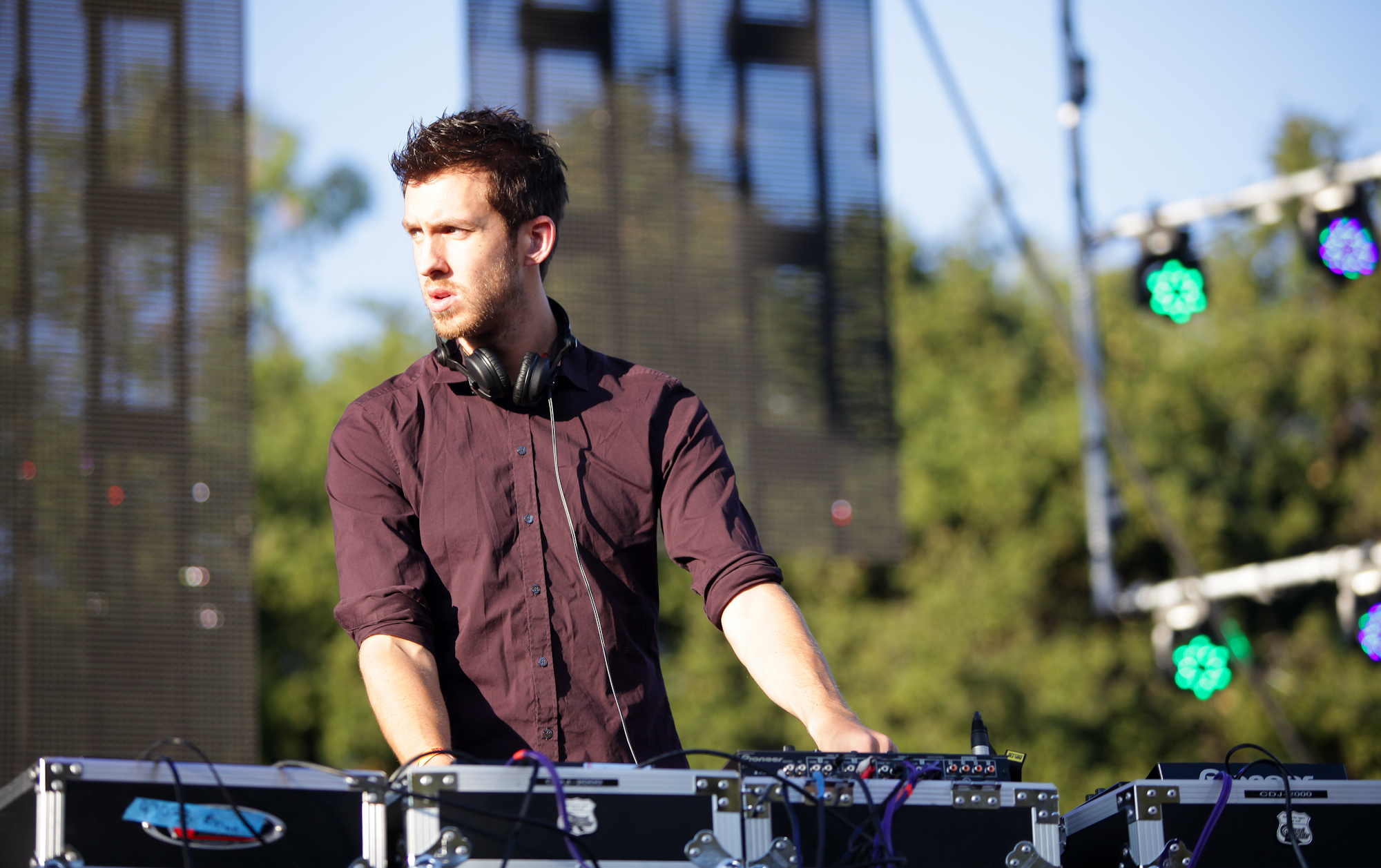 Calvin Harris